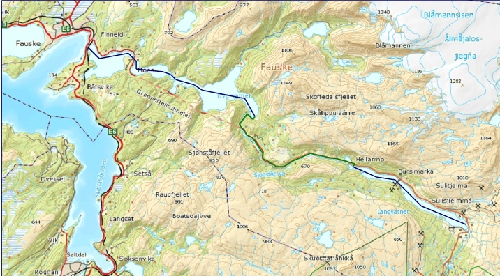 The map shows the boat (blue) and railway (green) line originally built for the mining company. The red line shows the road 830 which was later built.